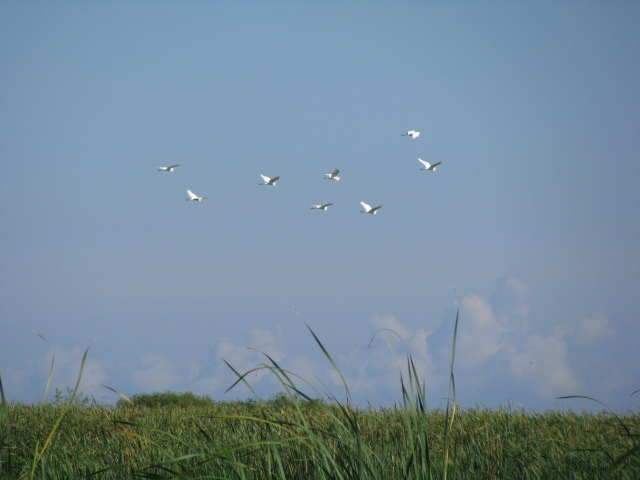 Ardea alba flock in Piirissaar island (Estonia)